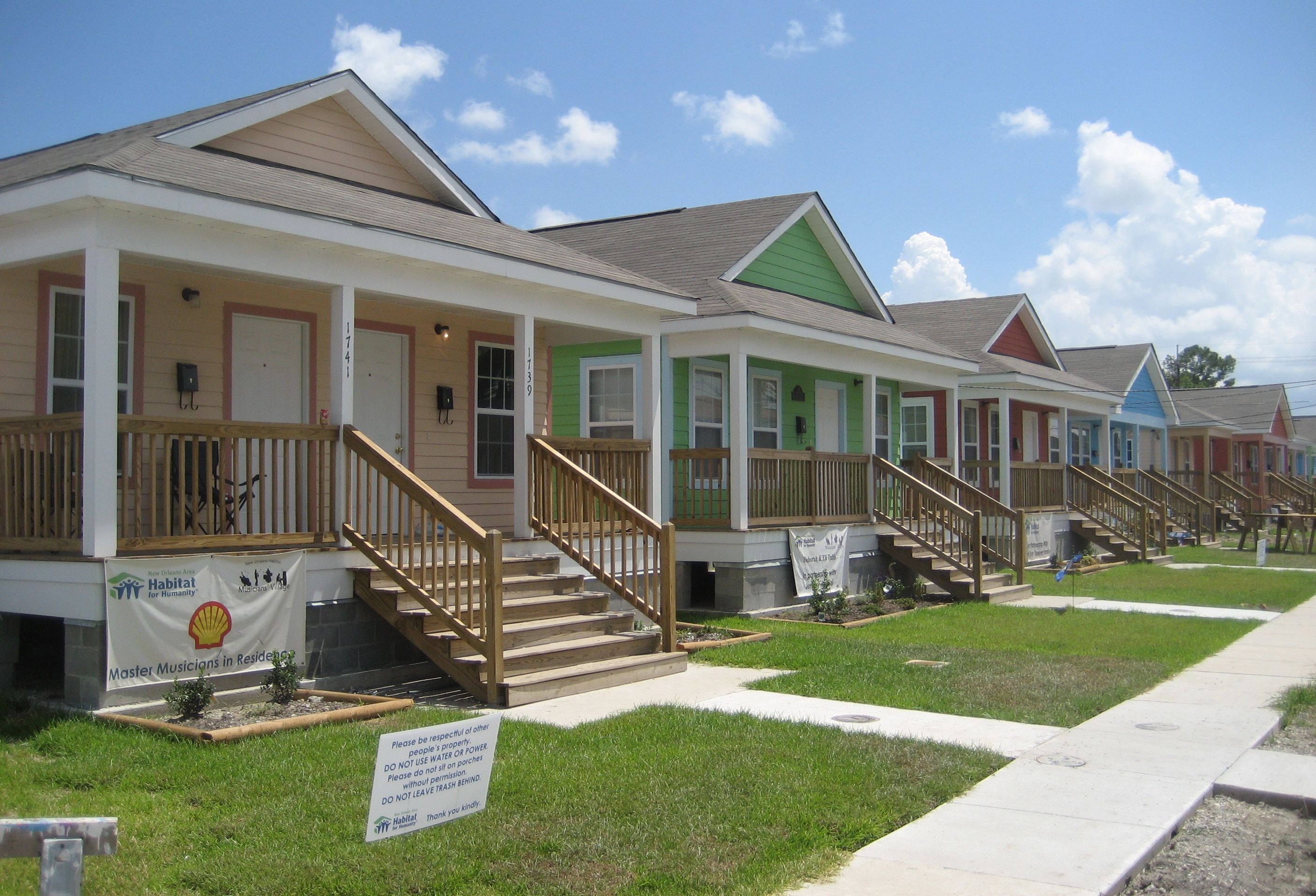 "Musicians' Village" development of post-Hurricane Katrina housing in the Upper 9th Ward of New Orleans, about 2 years after the disaster.